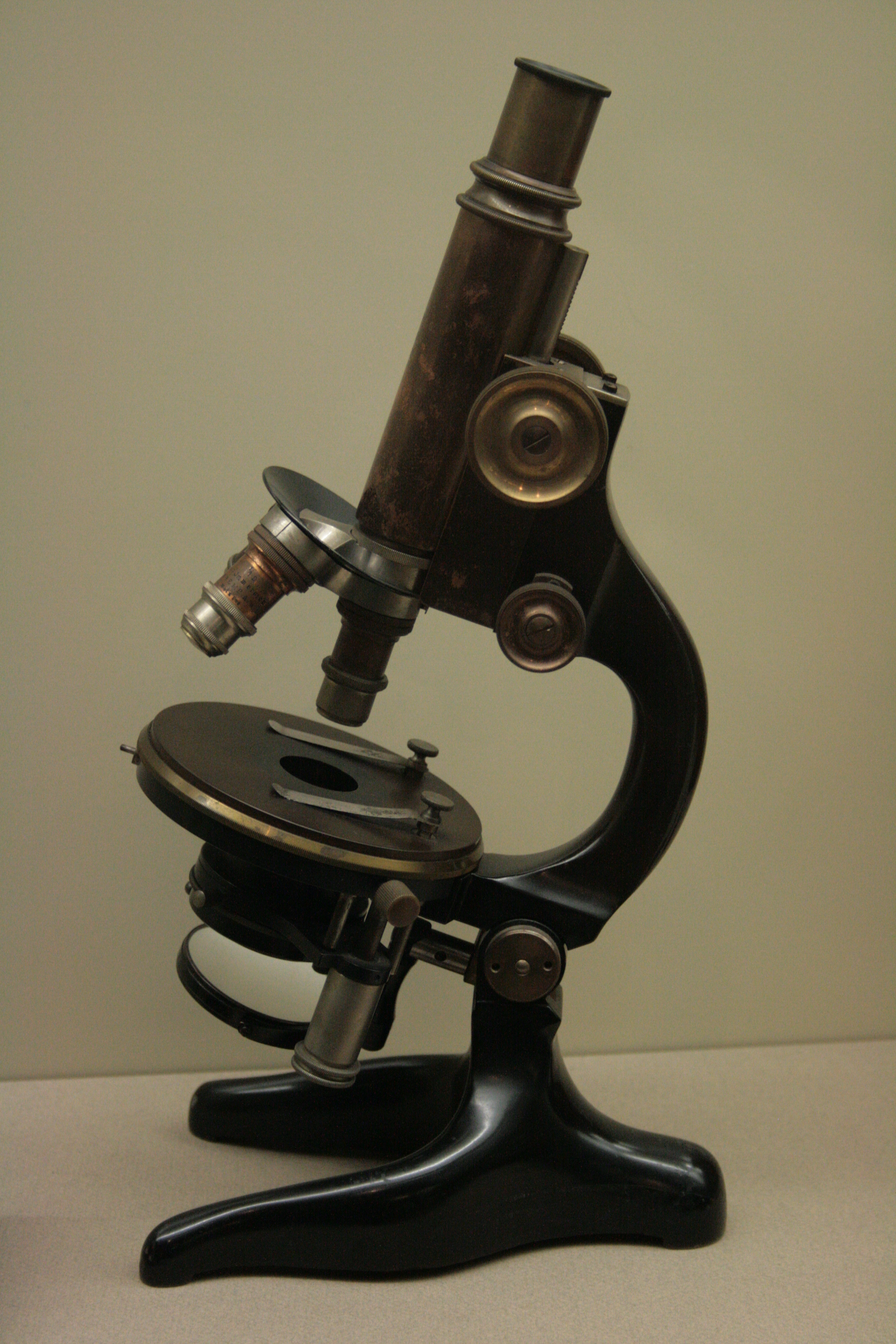 Microscop from Kremp A.G. circa 1920